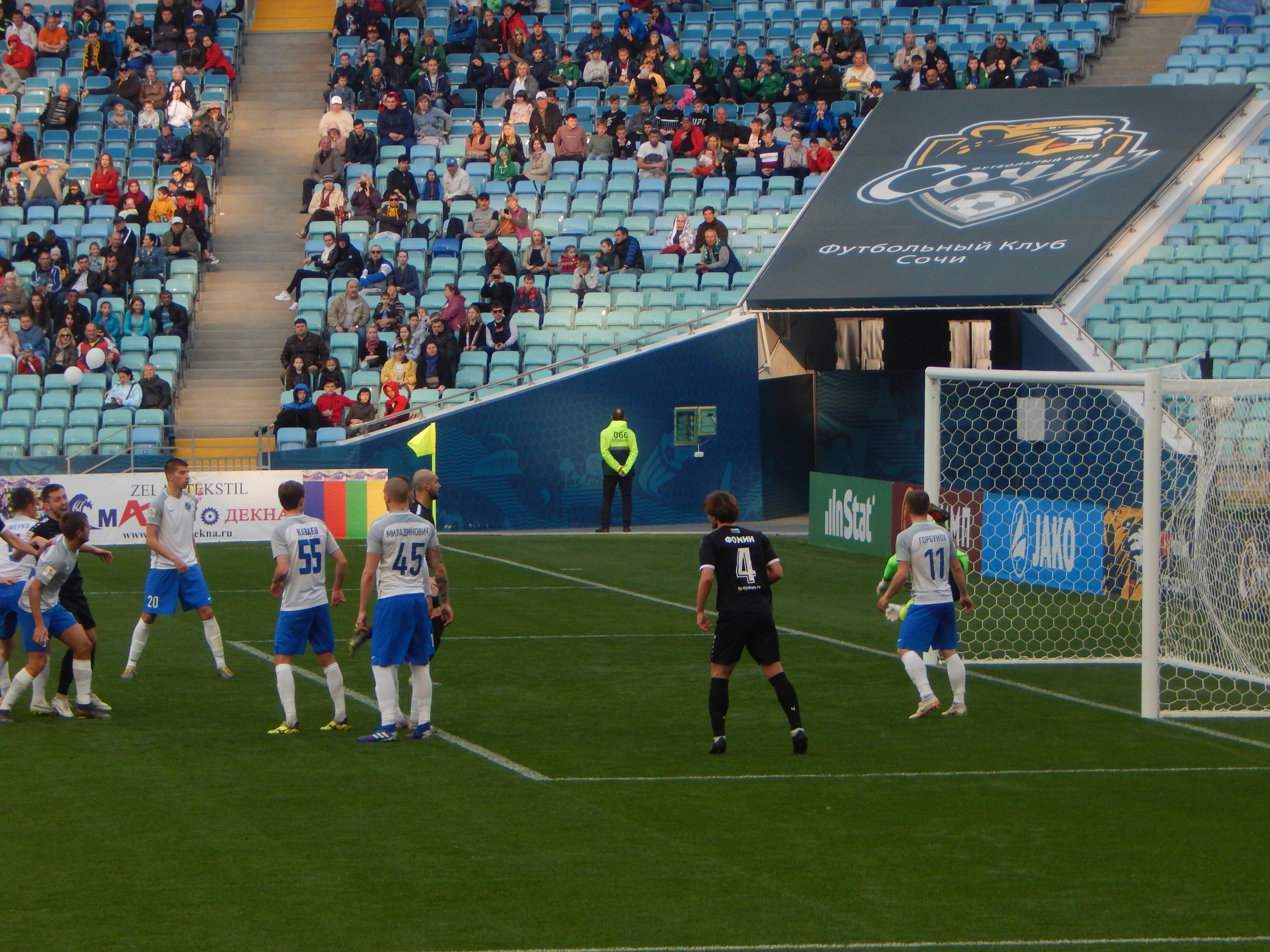 2018–19 Russian National Football League, match between FC Sochi and FC Tyumen. April 7, 2019, Fisht Olympic Stadium, Sochi, Russia